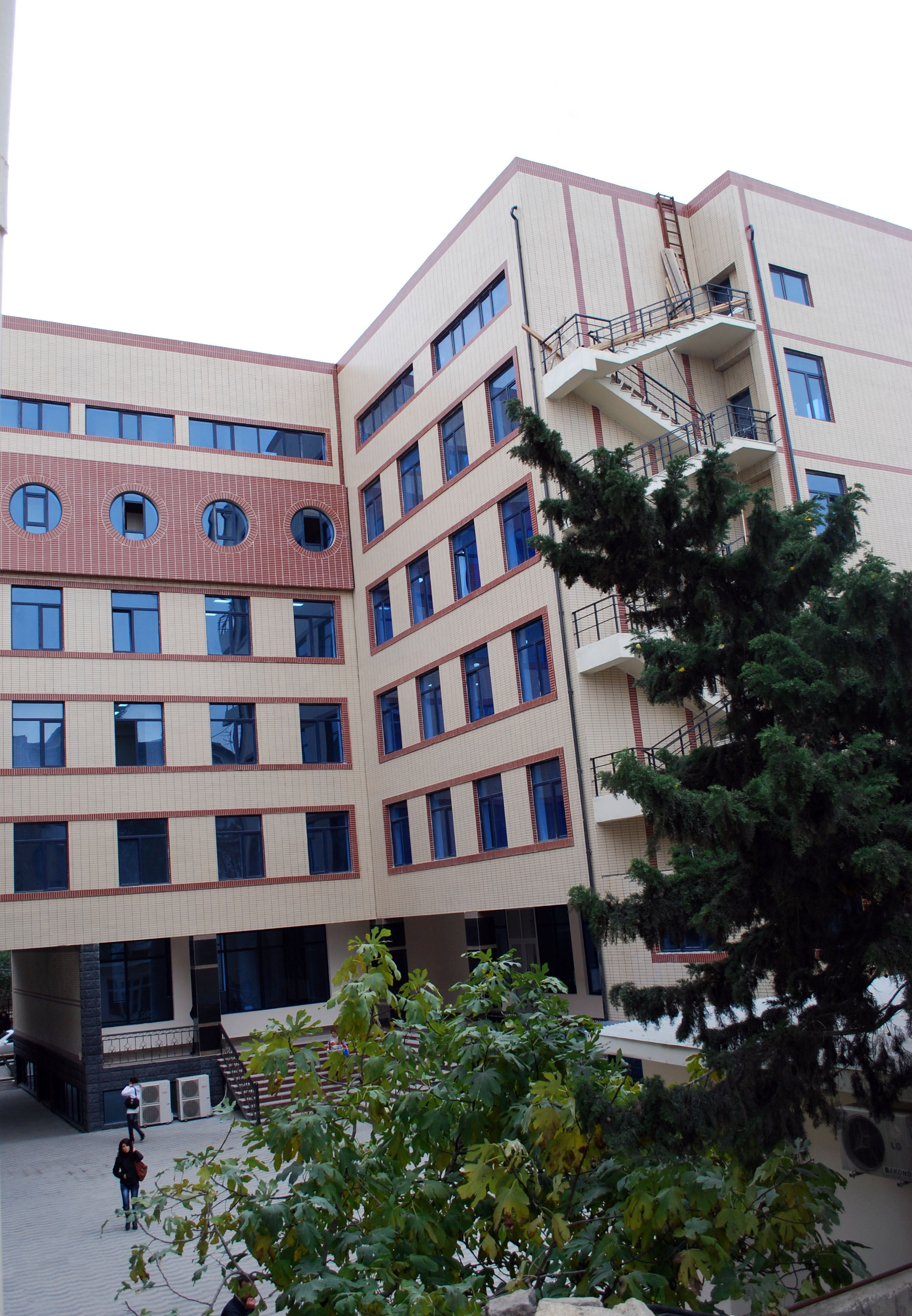 Khazar University Neftchilar Campus building 2, second shot